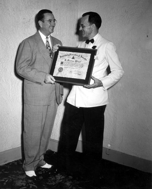 J. Saxton Lloyd received Scroll of Merit from R.D. Peterson, district governor, Advertising Federation of America, for outstanding service to the state as vice-chairman of Fla. State Ad. Com. The scroll was presented to each of the nine commission members